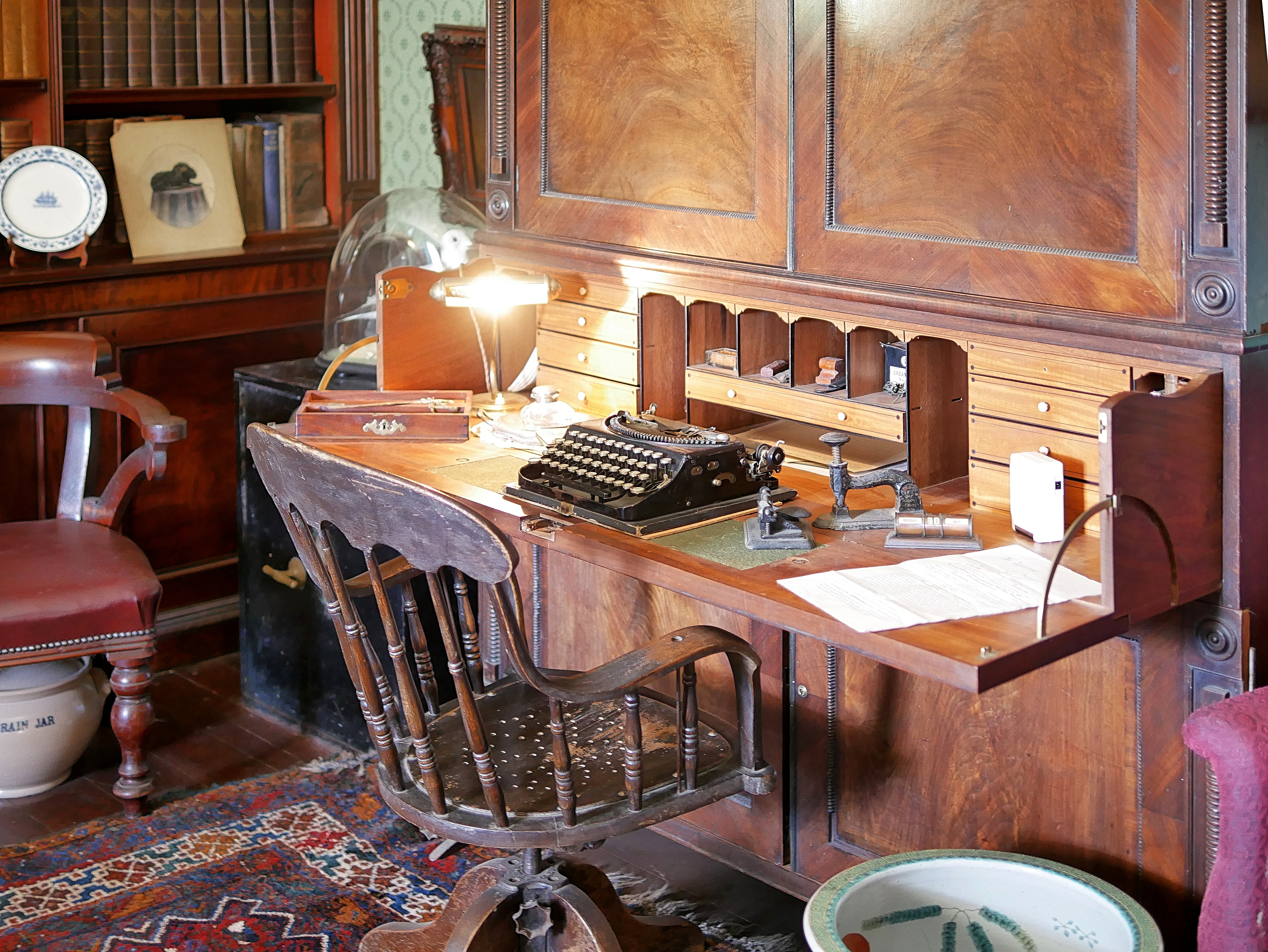 Scolton Manor, study, home office